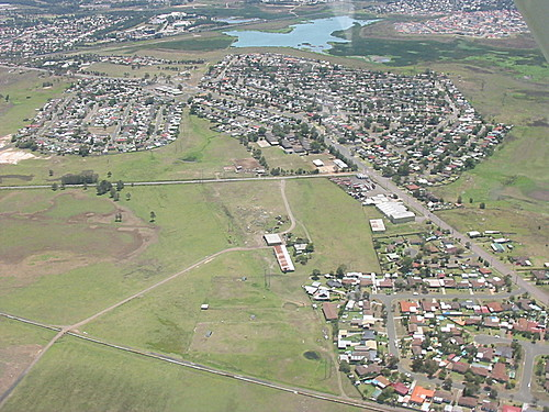 This photograph was personally taken by myself.